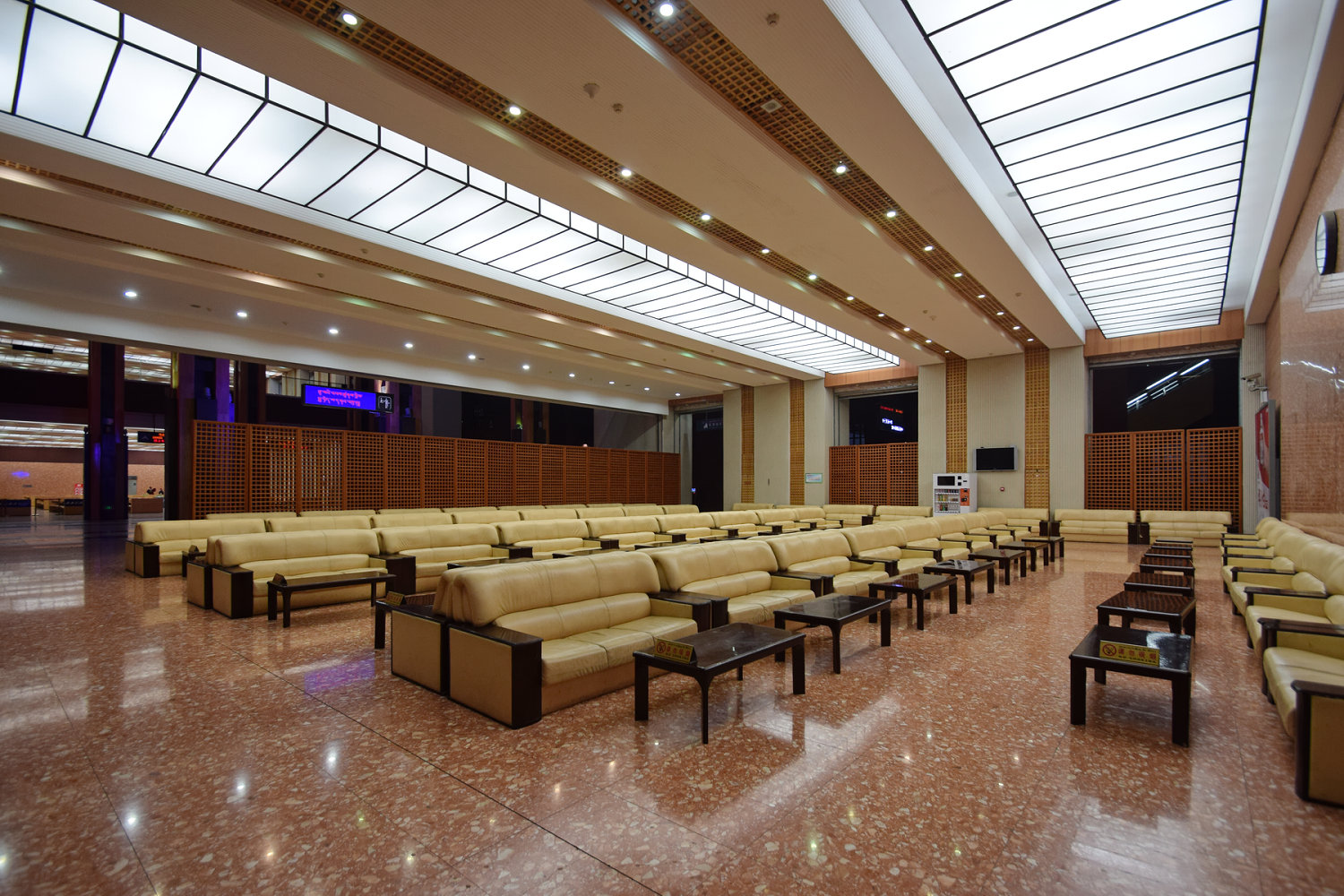 First Class Waiting Room at 1/F of Lasa (Lhasa) Railway Station